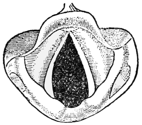 Vocal cords during inspiration